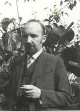 none.